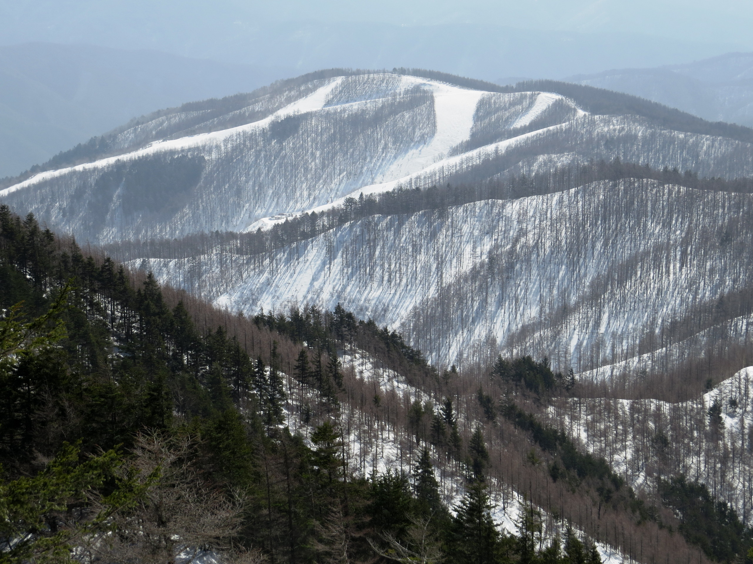 Yabuharakogen Ski resort from Mount Osasasawa, in Kiso village, Nagano prefecture, Japan.